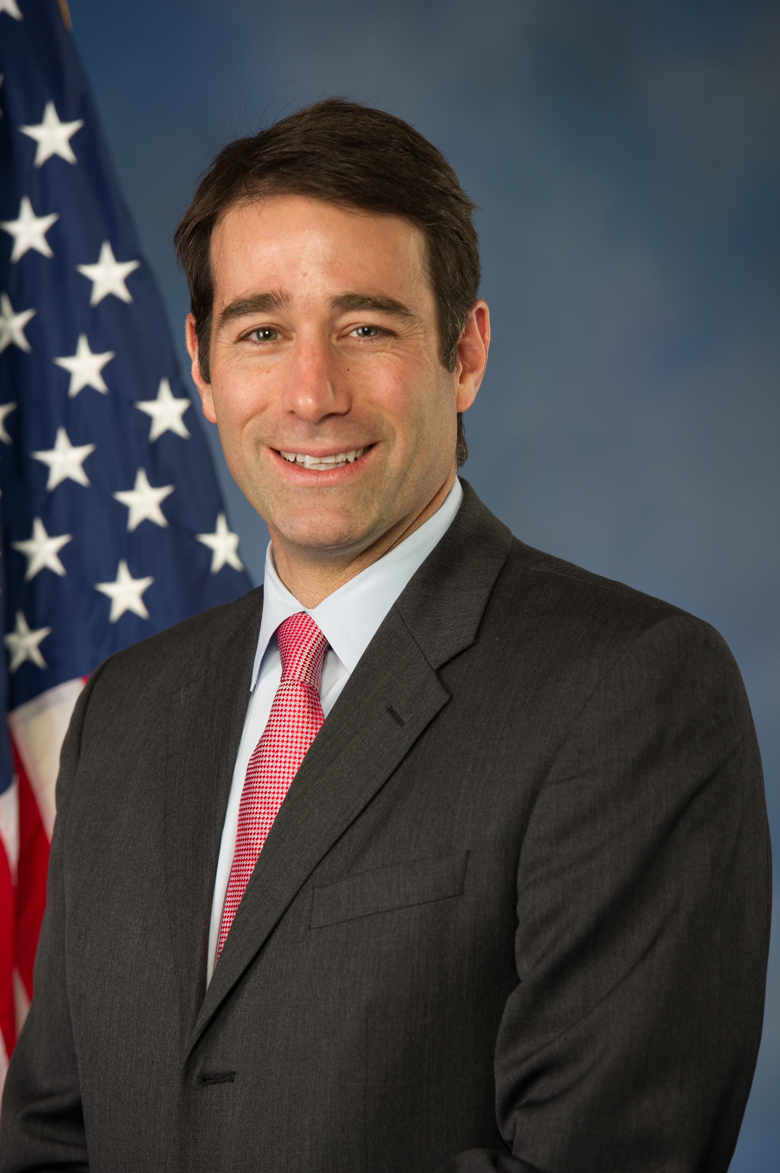 Garret Graves official photo, 114th Congress